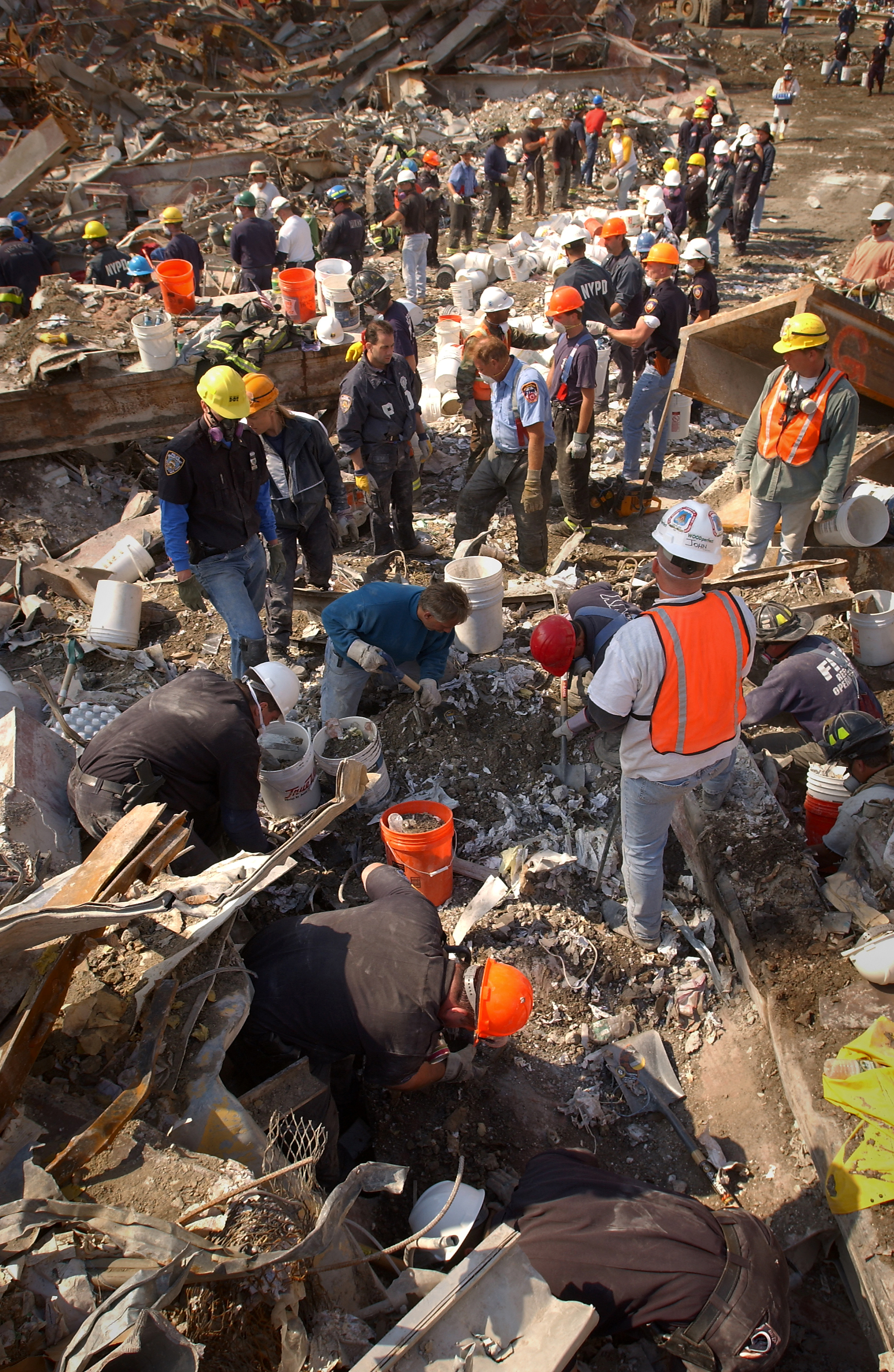 Rescue workers line up to clear the debris and rubble of the World Trade Center one bucket at a time.